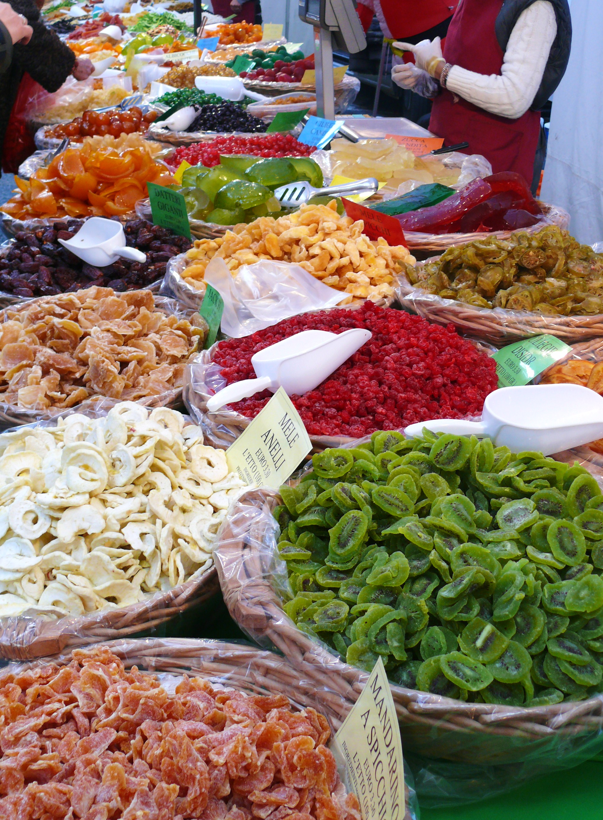 candied fruit